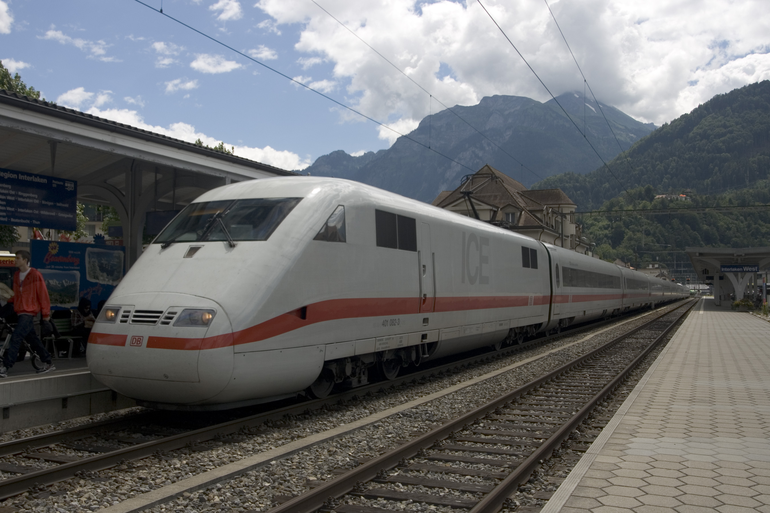 German Intercity-Express (ICE) train at Interlaken West station. For more information, see the Wikipedia articles Interlaken West railway station and Intercity-Express.